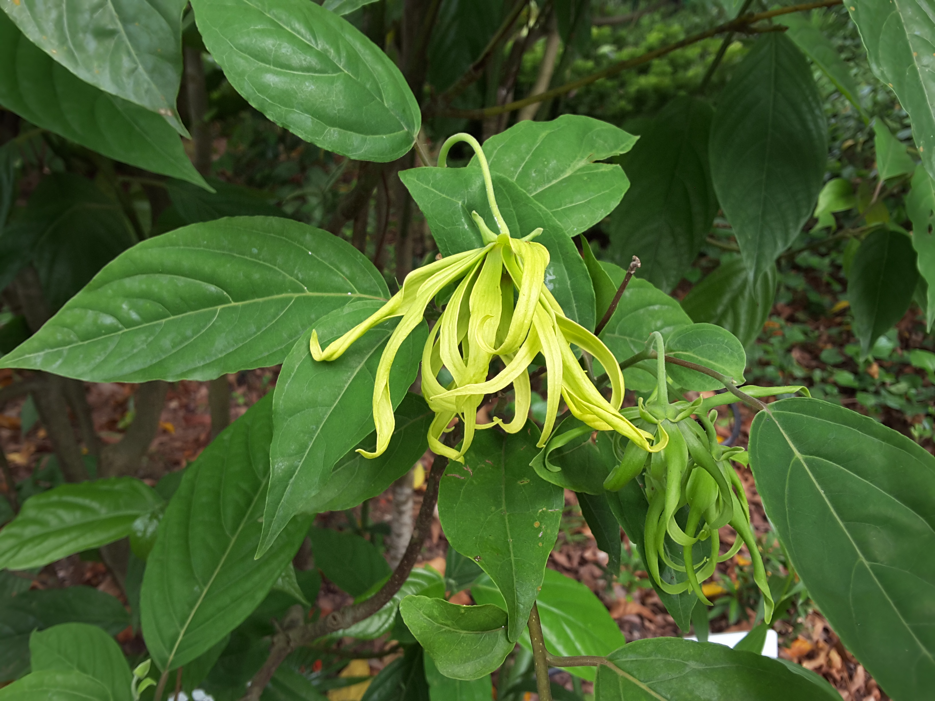 Cananga odorata in Singapore